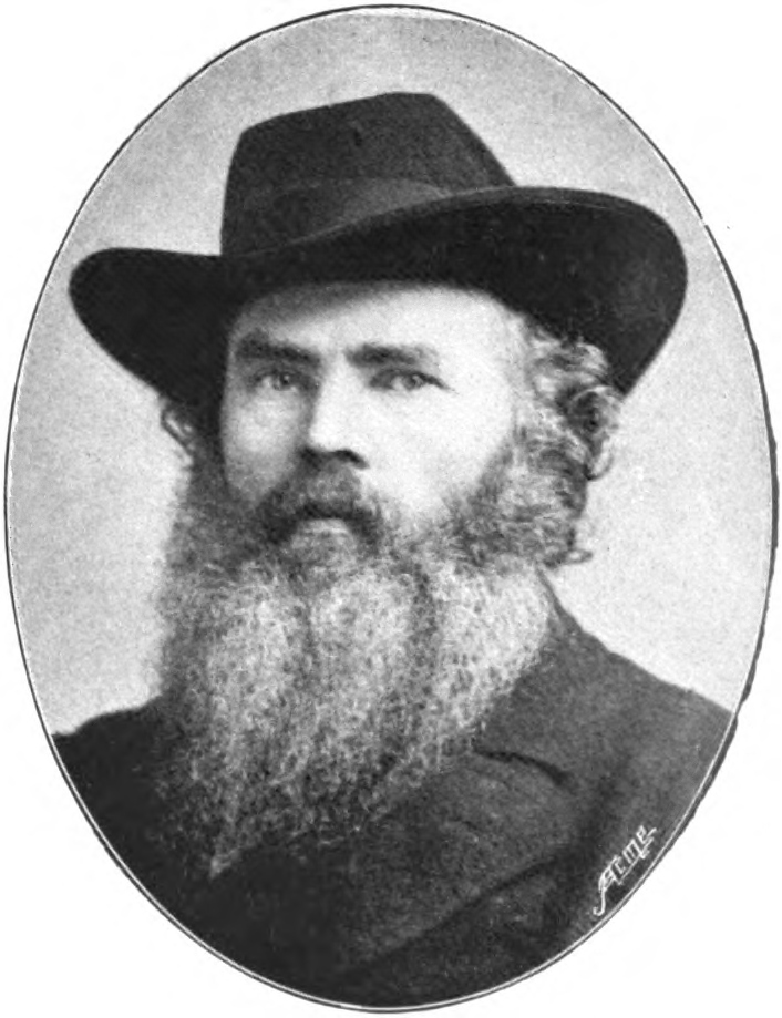 William Allan (English politician) Licensing Captioned As { }